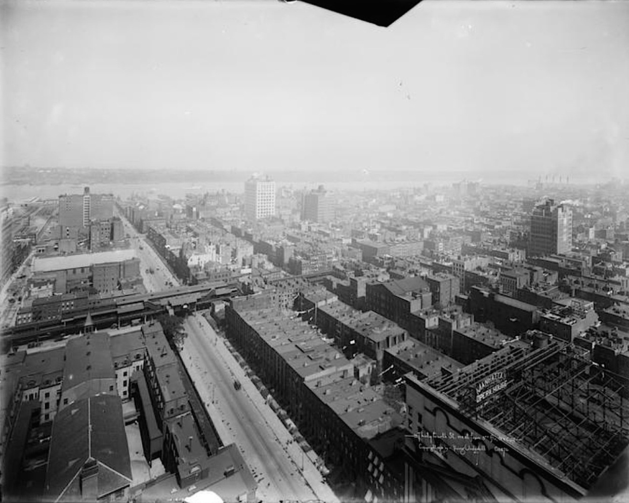 Manhattan Opera House is in lower right corner; 9th Avenue elevated railroad, with station at 34th Street, is visible; Hudson River and New Jersey are in the distance